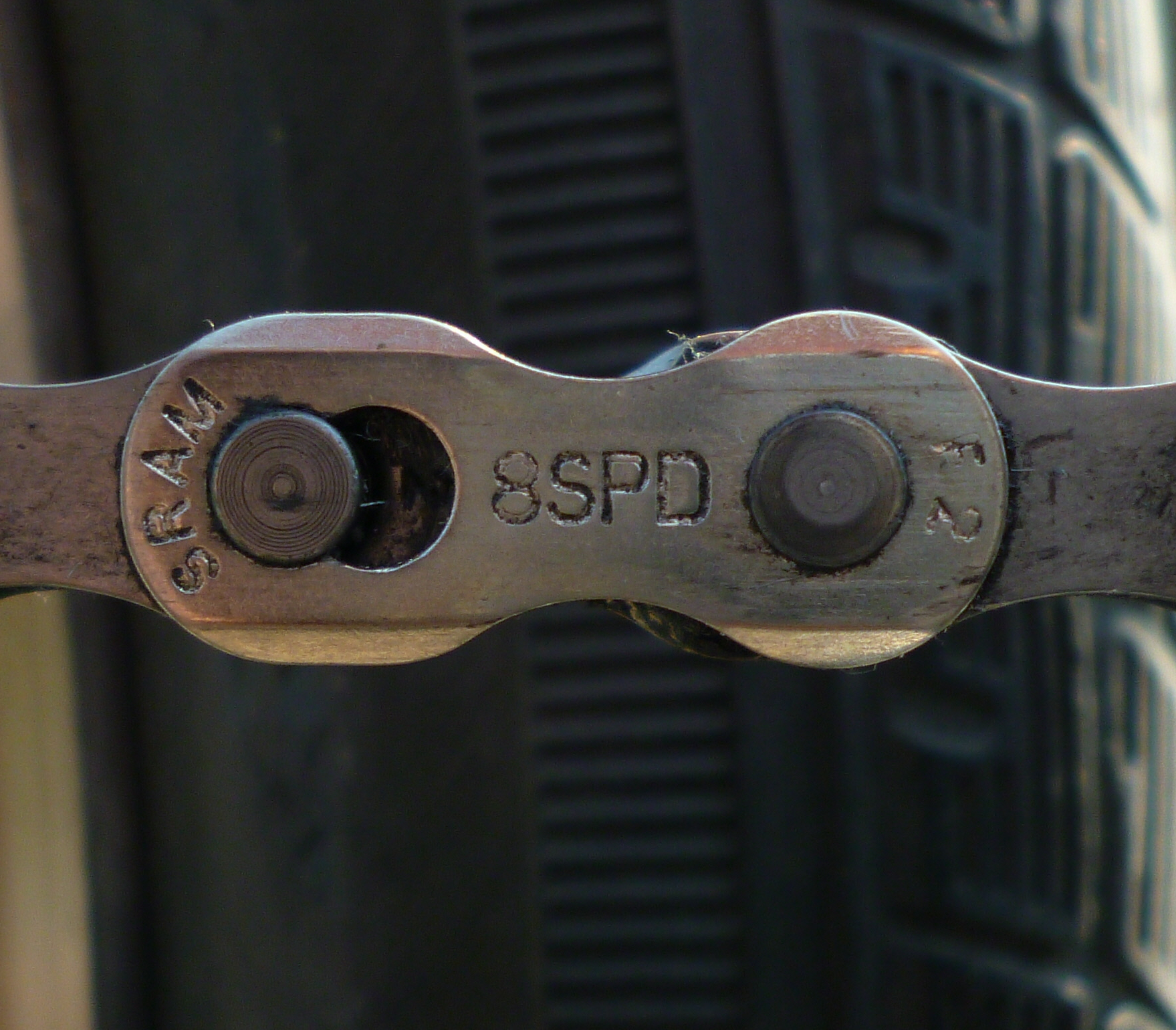 A photograph of a master link for a bicycle chain. Such items are used to connect the two ends of a chain after it has been adjusted for length. This particular item is marked as being suited to eight-speed chains (and is used for seven-speeds), and although the manufacturer does not make the claim, within limits, it has been found to be re-usable. It is opened manually with slight difficulty or with specially curved master-link pliers that extend around the chain's rollers. This so-called "PowerLink" is made by the SRAM manufacturer, and is supplied as a part of each new chain.